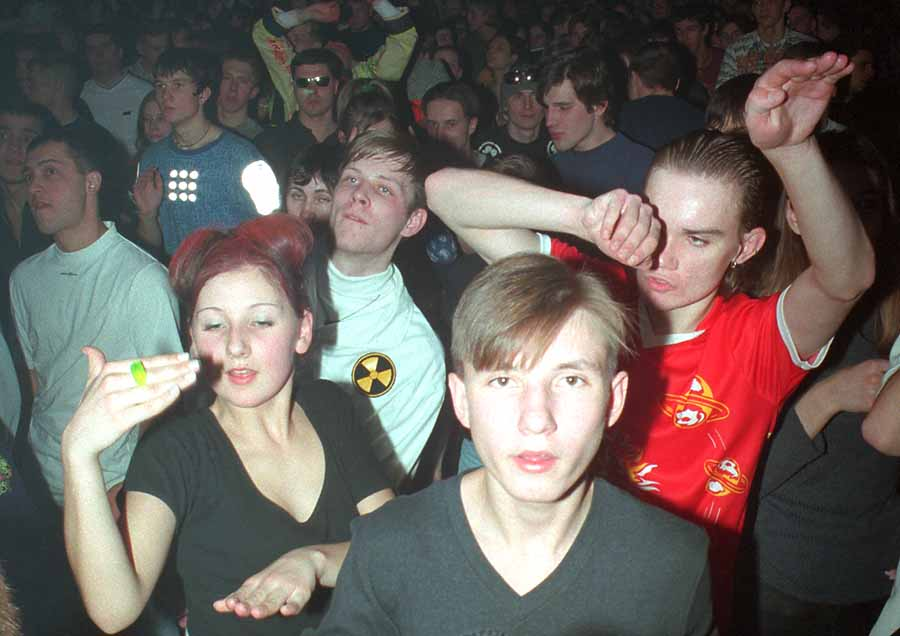 Orbita rave in Moscow youth palace, Moscow, 1998